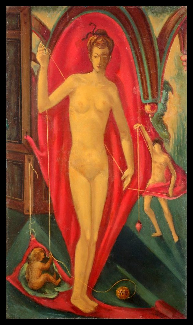 Daphne and Chloe